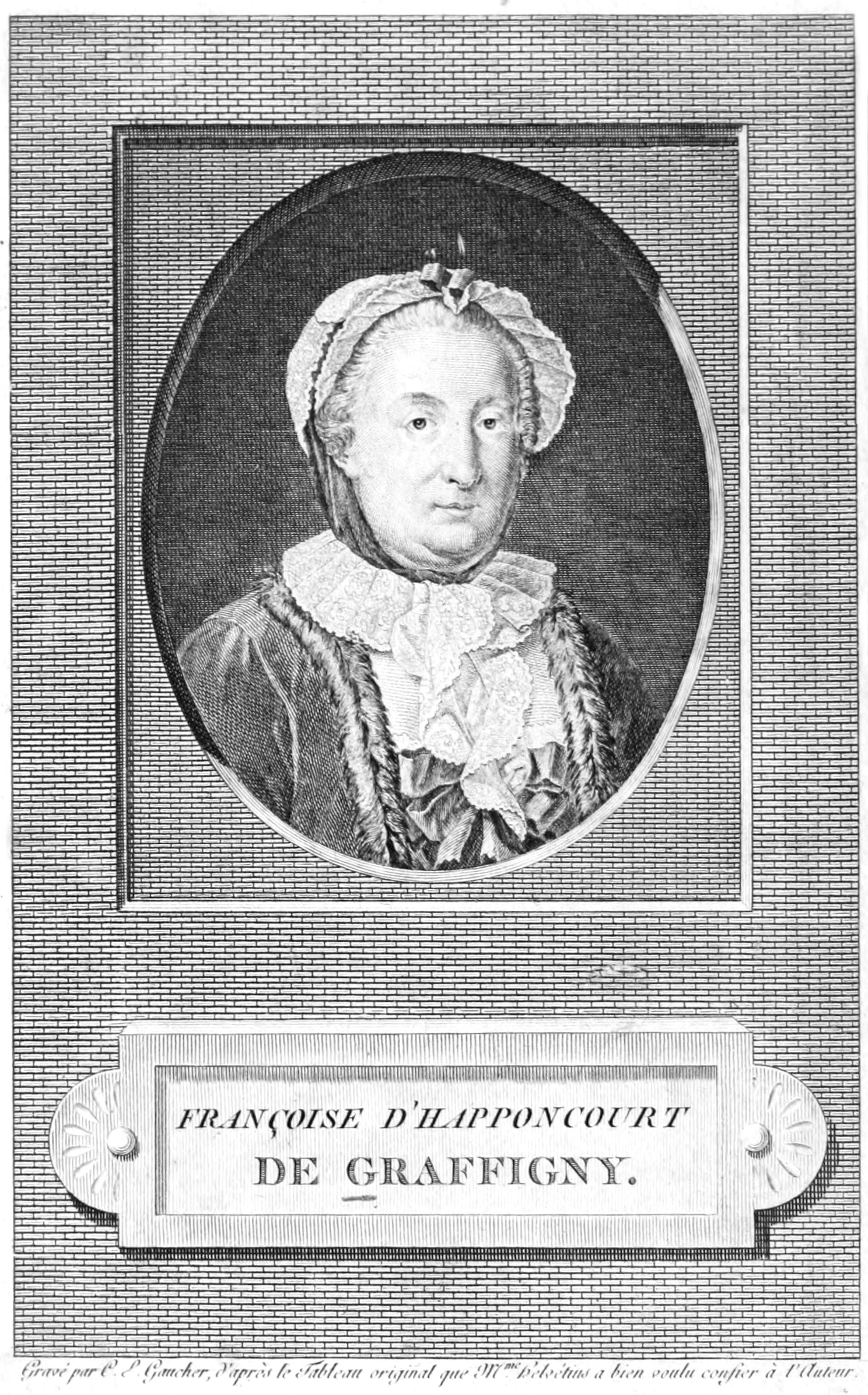 Portrait of Mme de Graffigny, engraved from a painting in the possession of her niece, Mme Helvétius